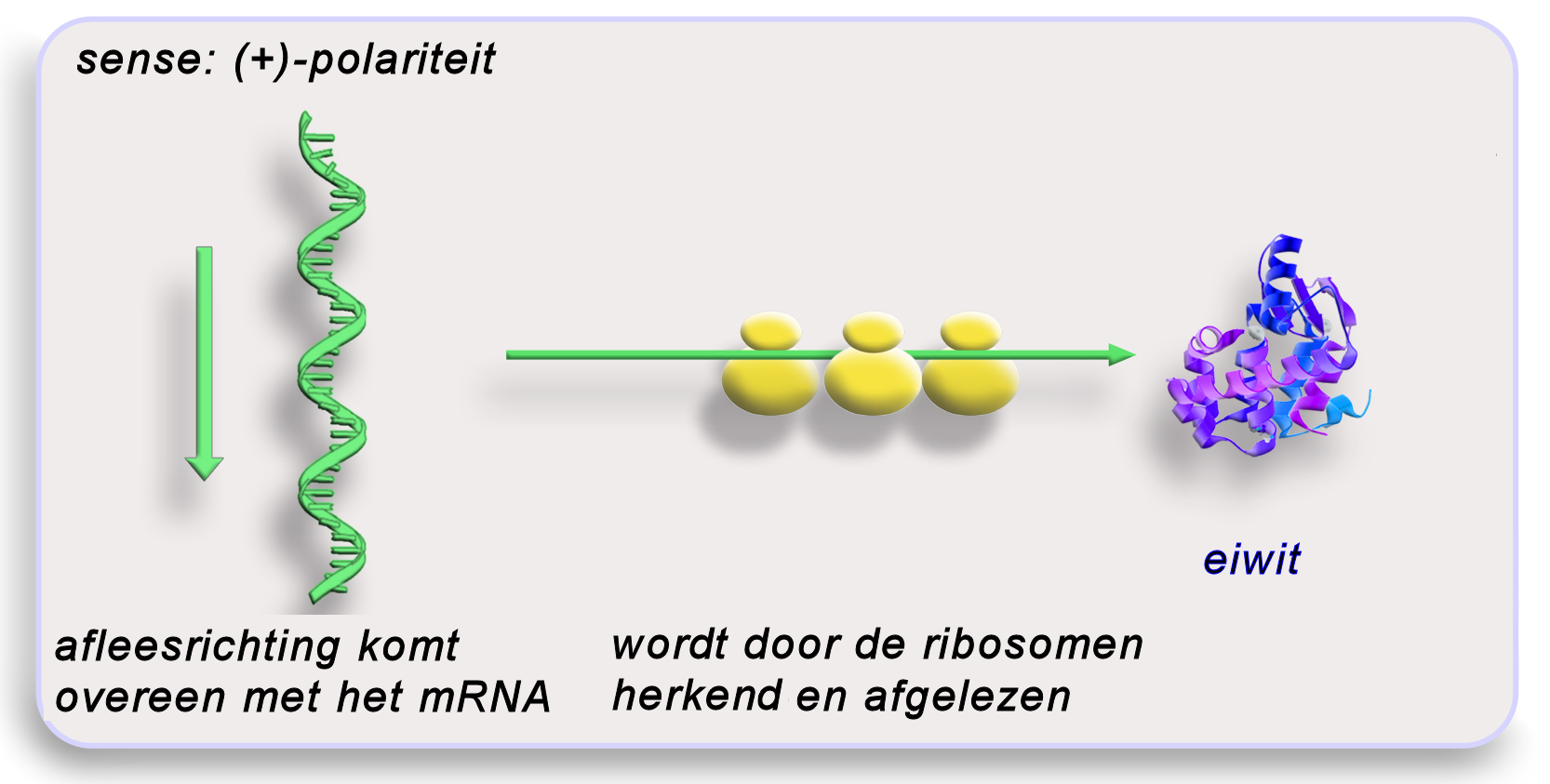 Now with Dutch txt